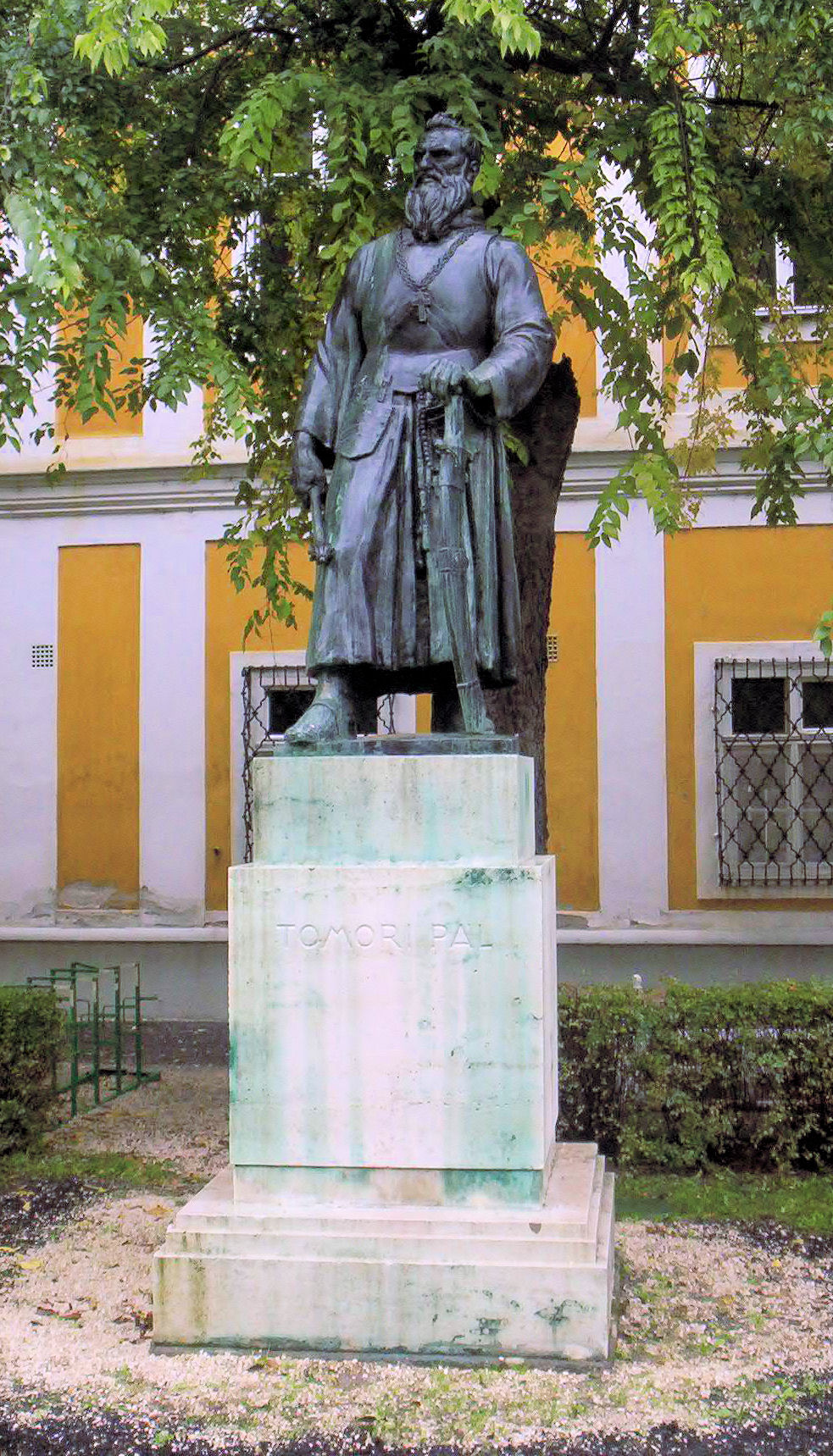 Tomori Pál szobra Kalocsán (He was the leader of the hungarian army in the battle of Mohács)